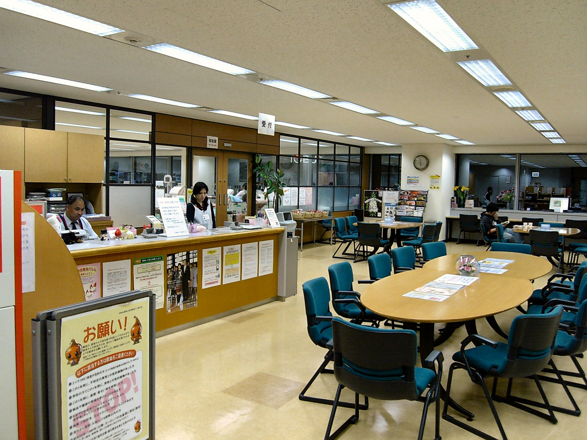 Blood donation room in Funabashi-Chiba-Japan